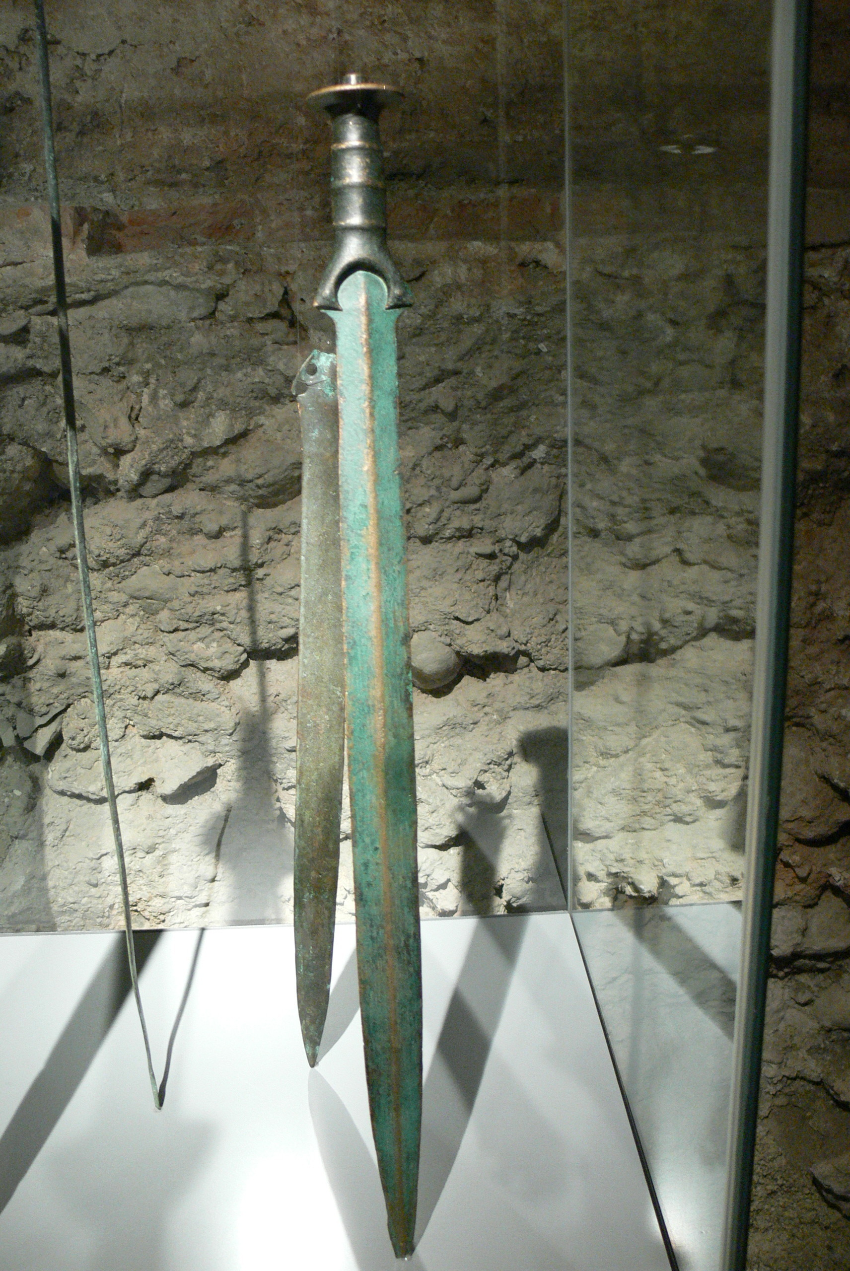 Wels ( Upper Austria ). City Museum - Minoritenkloster: Bronze age sword.